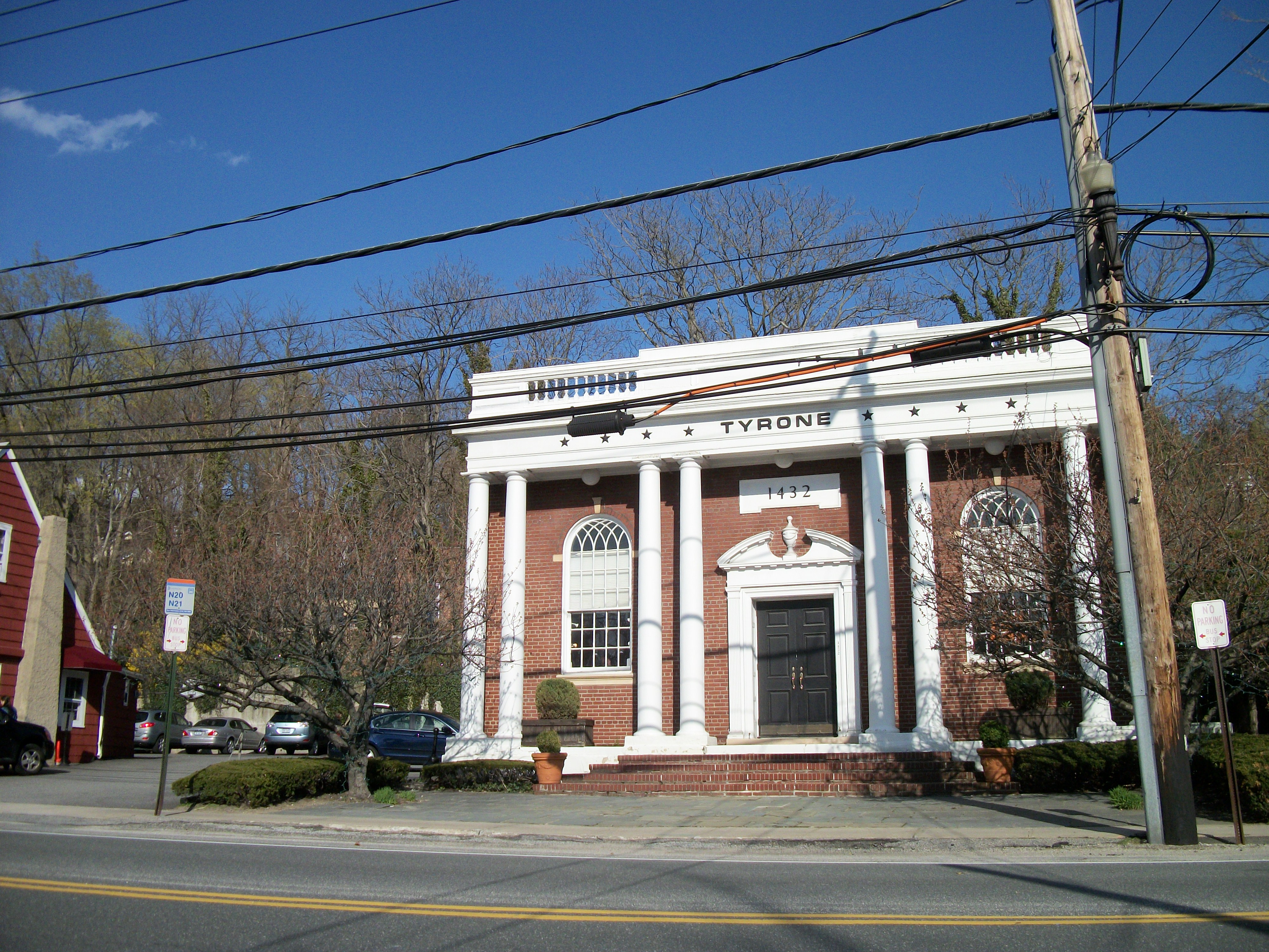 The NRHP-listed Roslyn National Bank and Trust Company Building in Roslyn, New York, evidently also called the "Tyrone Building." I have another shot of this building, hence the "2" in the name.